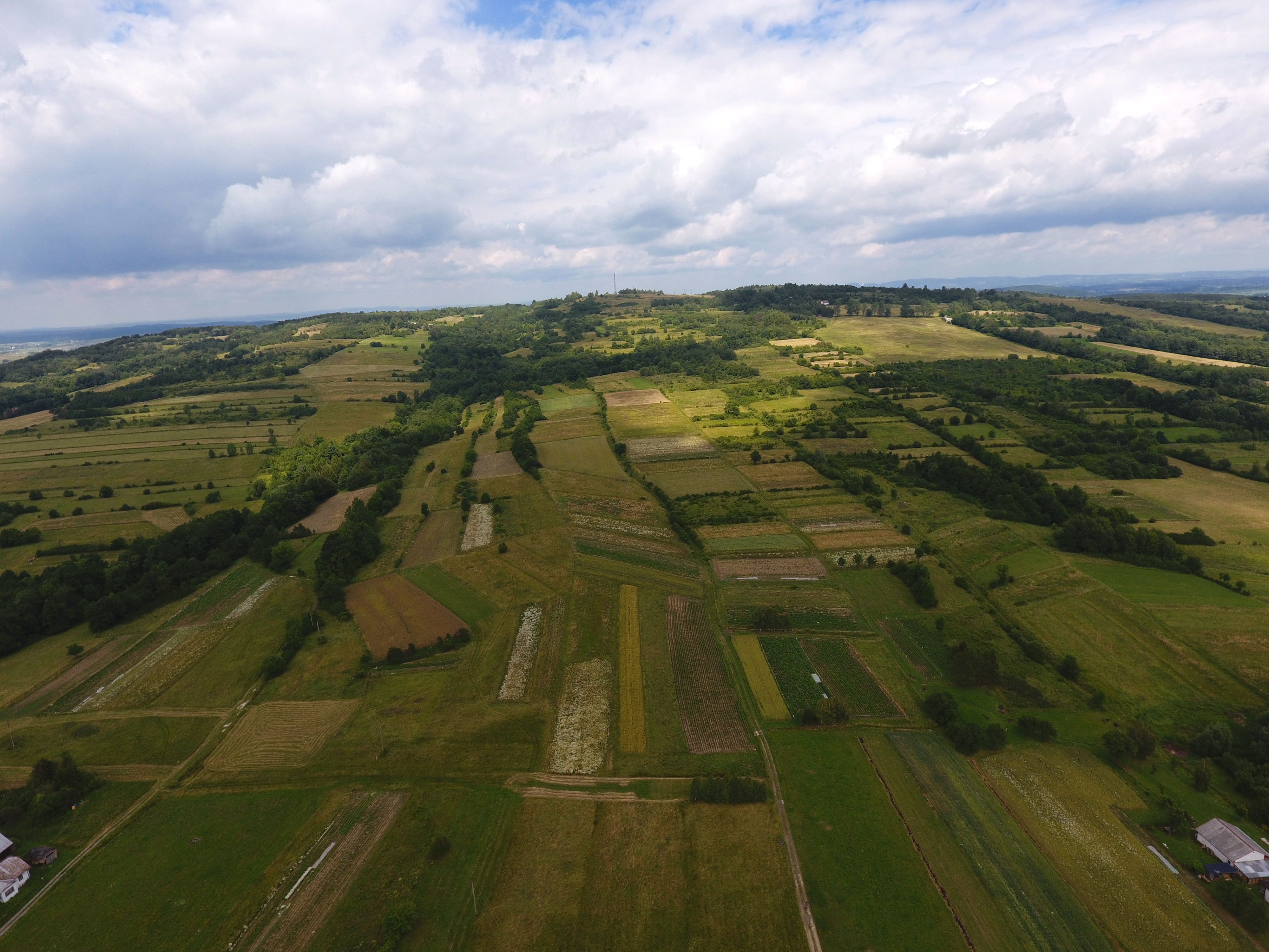 Dukla hill "534"